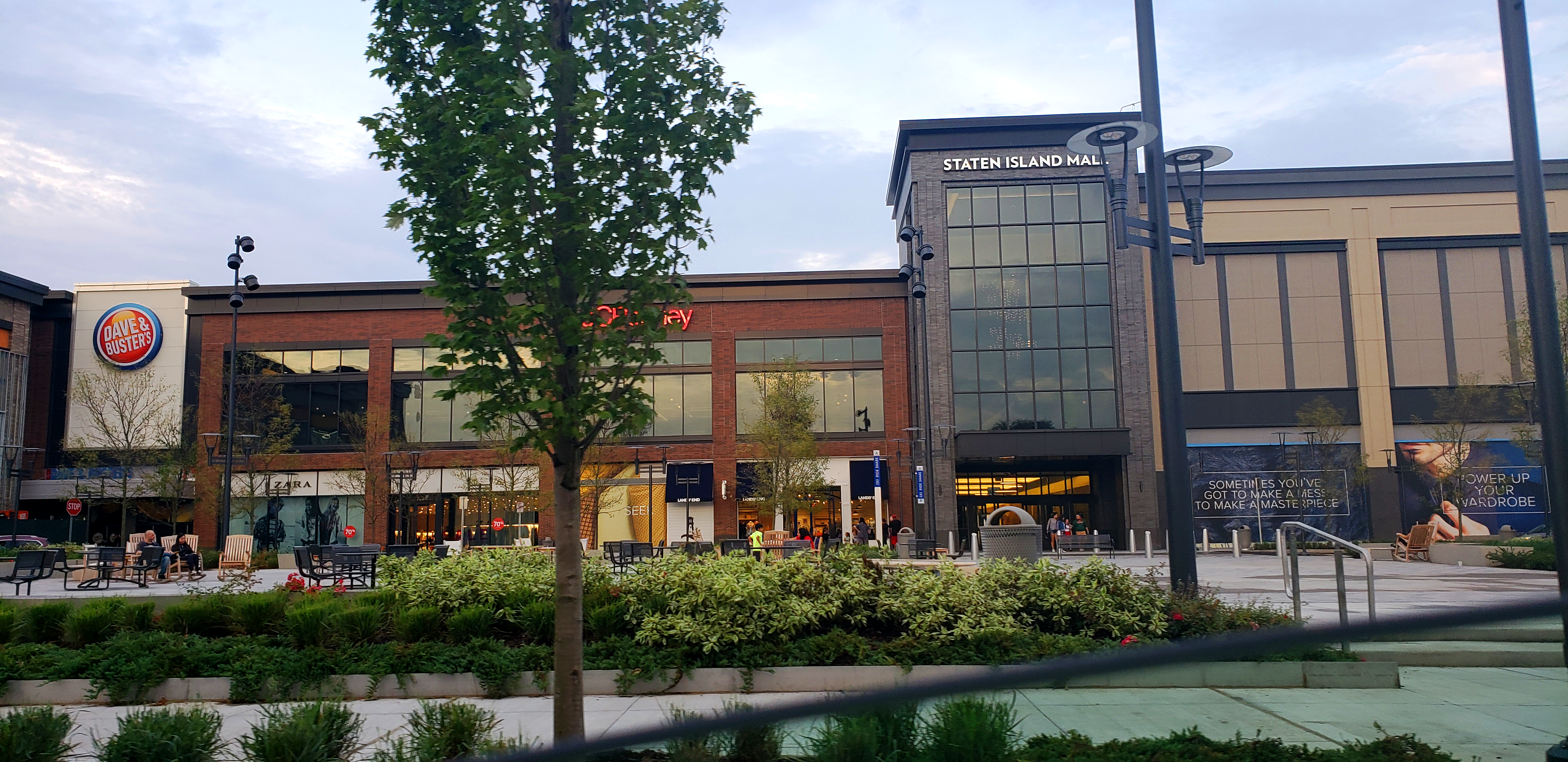 Picture of the Staten Island Mall's new wing, public plaza and front entrance as a result of the 2015 expansion project.